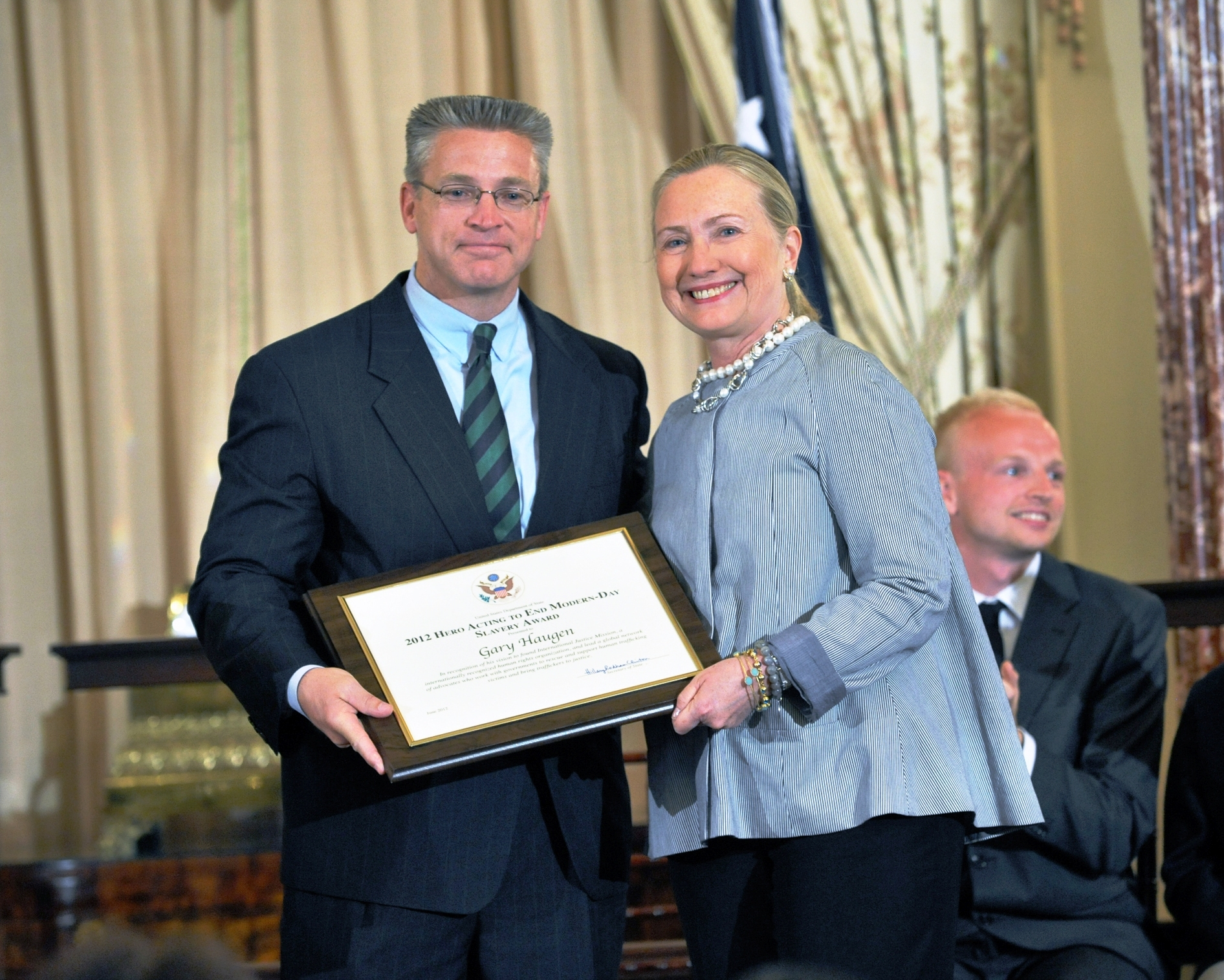 U.S. Secretary of State Hillary Rodham Clinton honors Gary Haugen of the United States, a 2012 Trafficking in Persons (TIP) Report Hero, at the U.S. Department of State in Washington, D.C., on June 19, 2012. [State Department photo/ Public Domain]